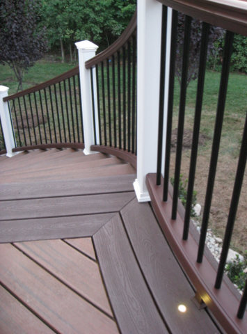 Trex Transcend Decking and Railing Stairscase